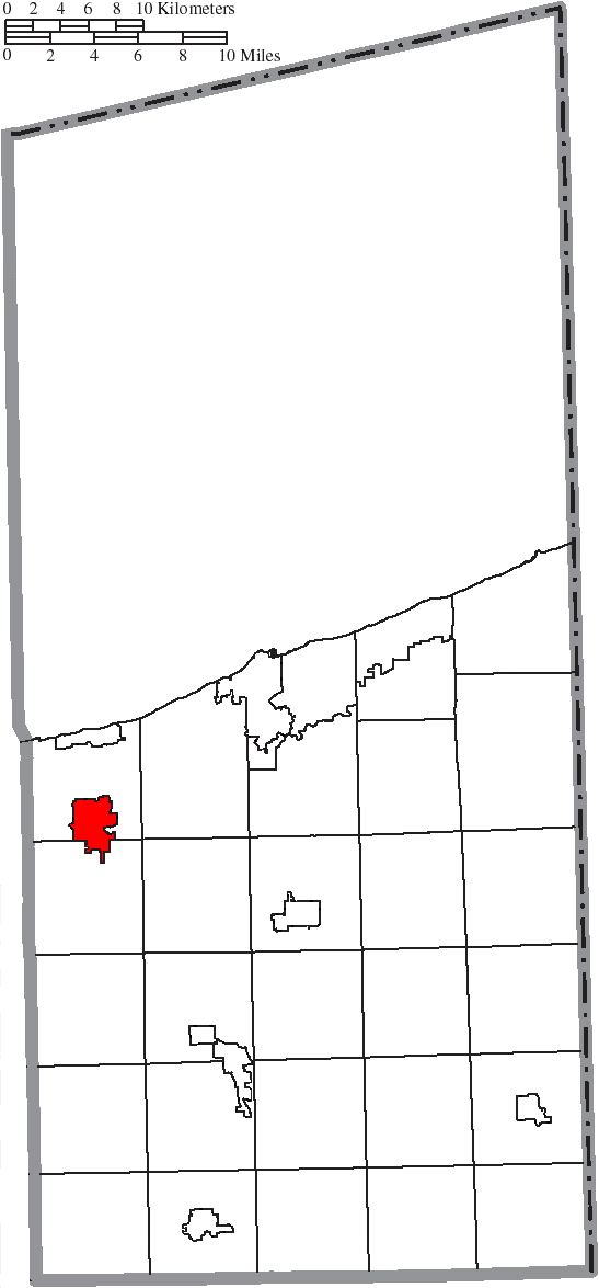 Map of the municipal and township boundaries of Ashtabula County, Ohio, United States, as of the 2000 census, with the location of the city of Geneva highlighted. Township borders are shown only in unincorporated areas in order to differentiate incorporated and unincorporated areas more clearly.